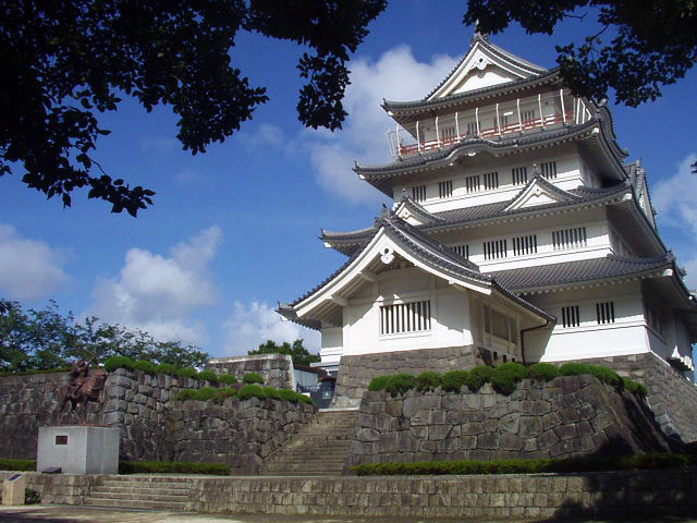 It Photographed at Inohana park in Cyuo ward, Chiba city, Chiba, Japan. The vacant lot of Inohana castle. Presently, Folk museum is built to this place.